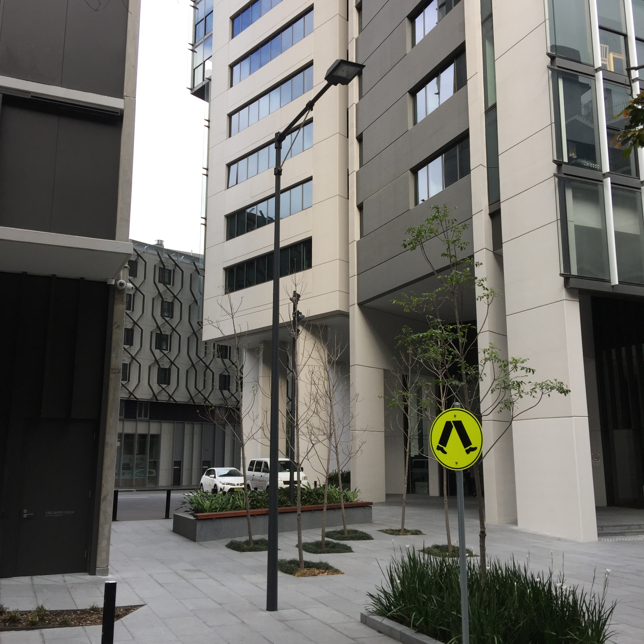 Building External Facade